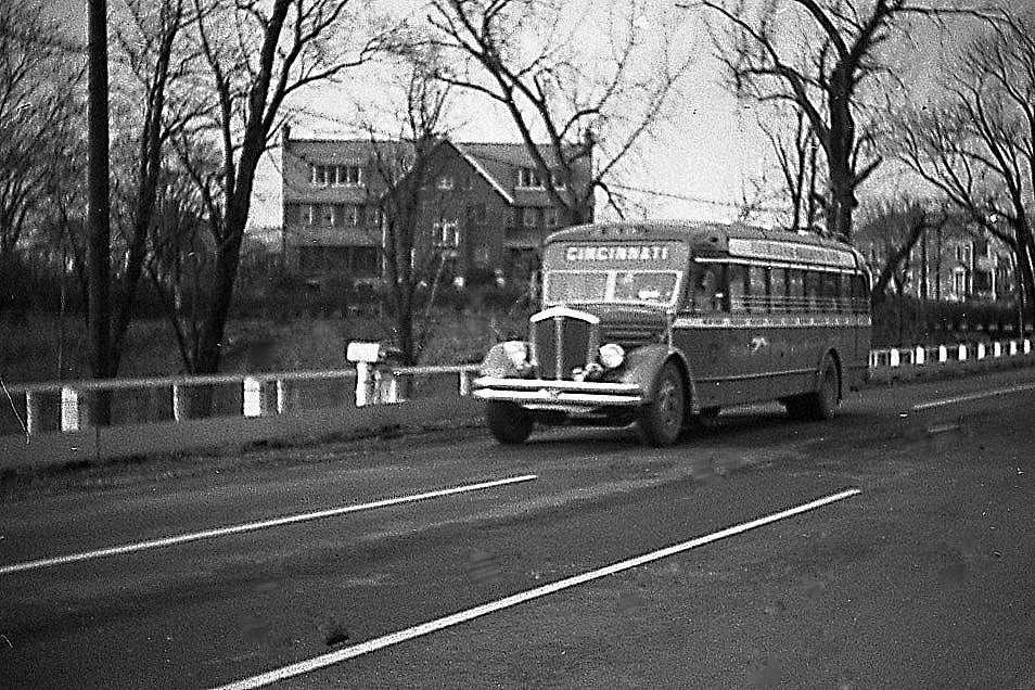 1939: The Cincinnati-bound Greyhound is heading south on US 23 just north of Worthington, Ohio. US 23 in that area was a 3-lane highway in those days, the cause of many wrecks and deaths when turning or passing cars met head-on. (For Worthington-area viewers: The Worthington city boundry was at North Street . The Methodist Children's Home is in the background.)